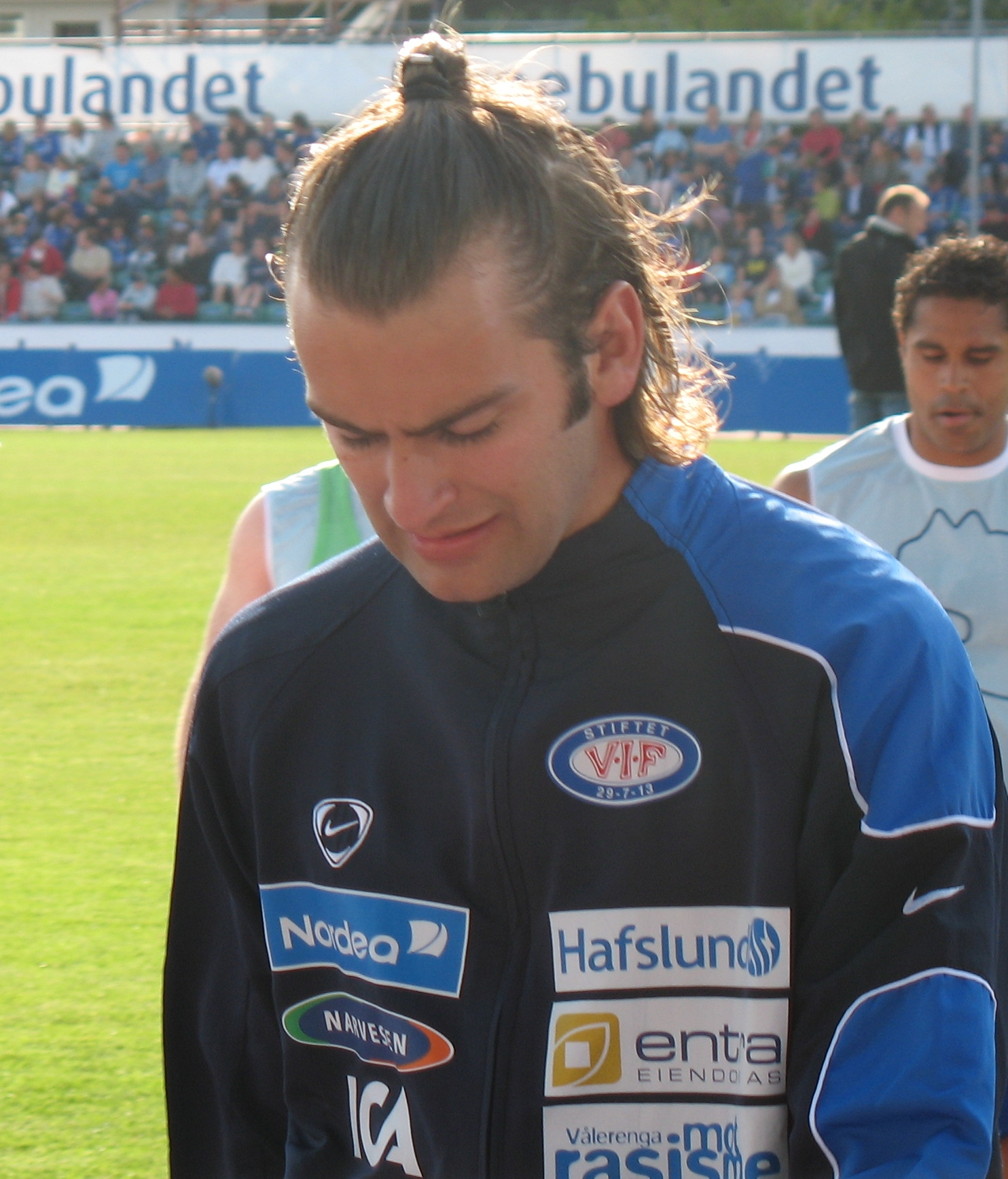 Norwegian footballer Magne Hoset.